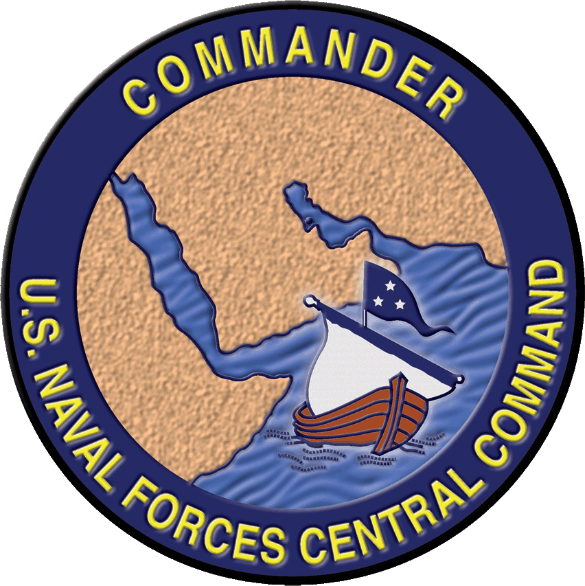 Commander, U.S. Naval Forces Central Command logo.